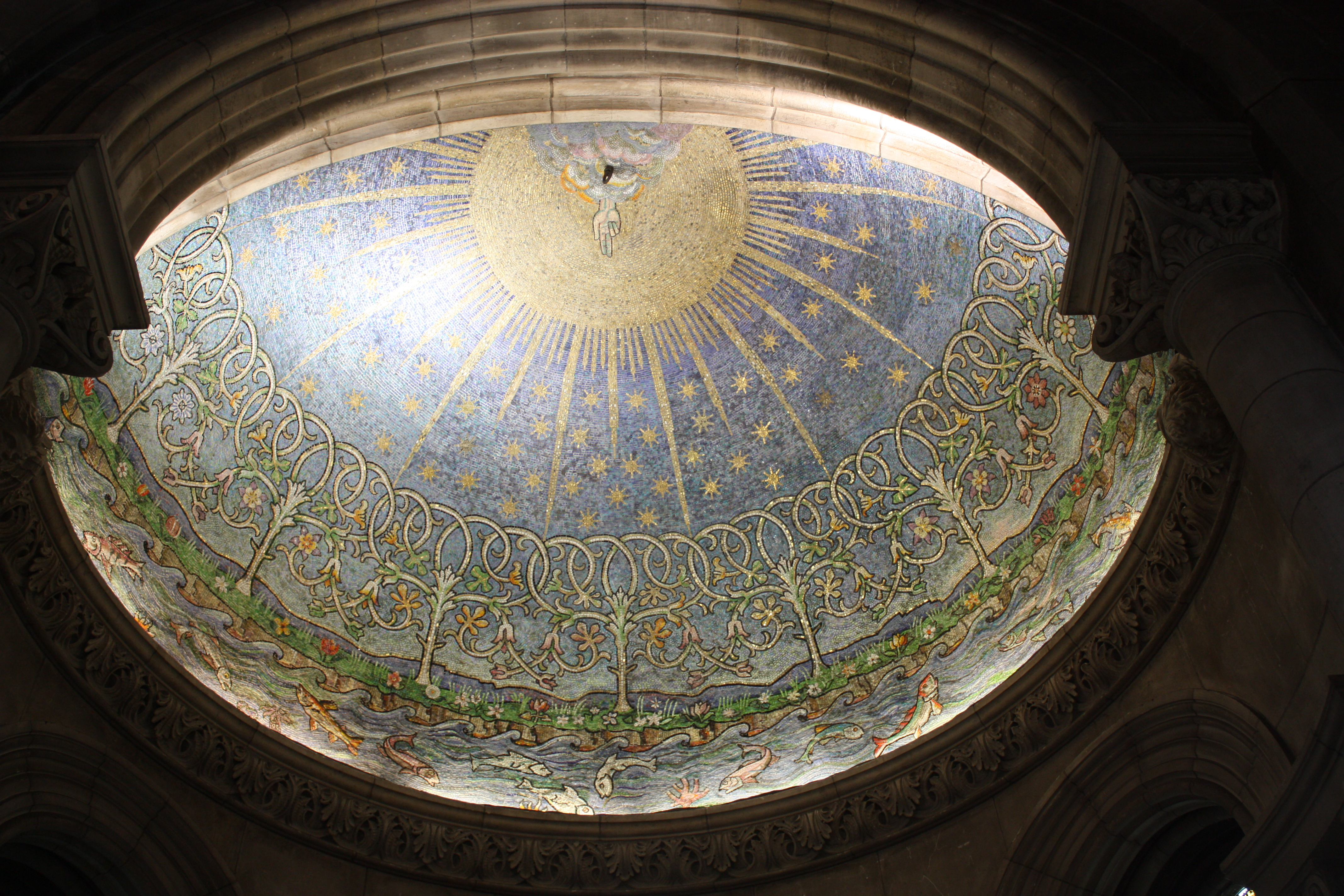 Baptistry ceiling, St Anne's Cathedral, Donegall Street, Belfast, Northern Ireland, July 2010